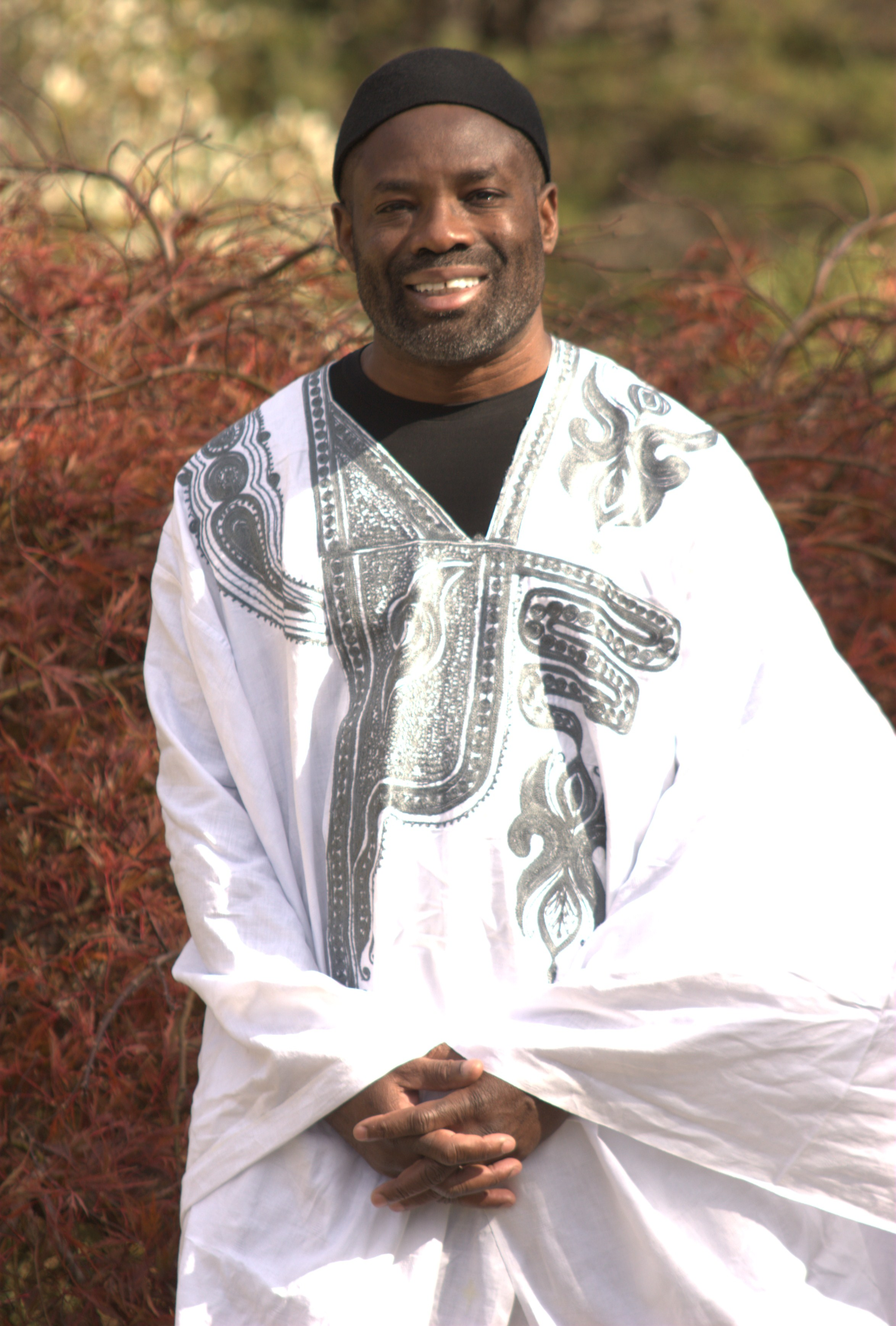 Philip Emeagwali in Maryland